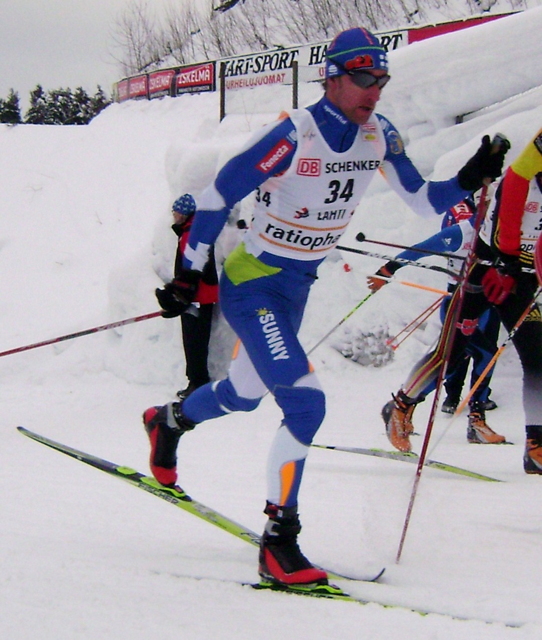 Finnish cross country skier Tero Similä at Lahti Ski Games 2010.